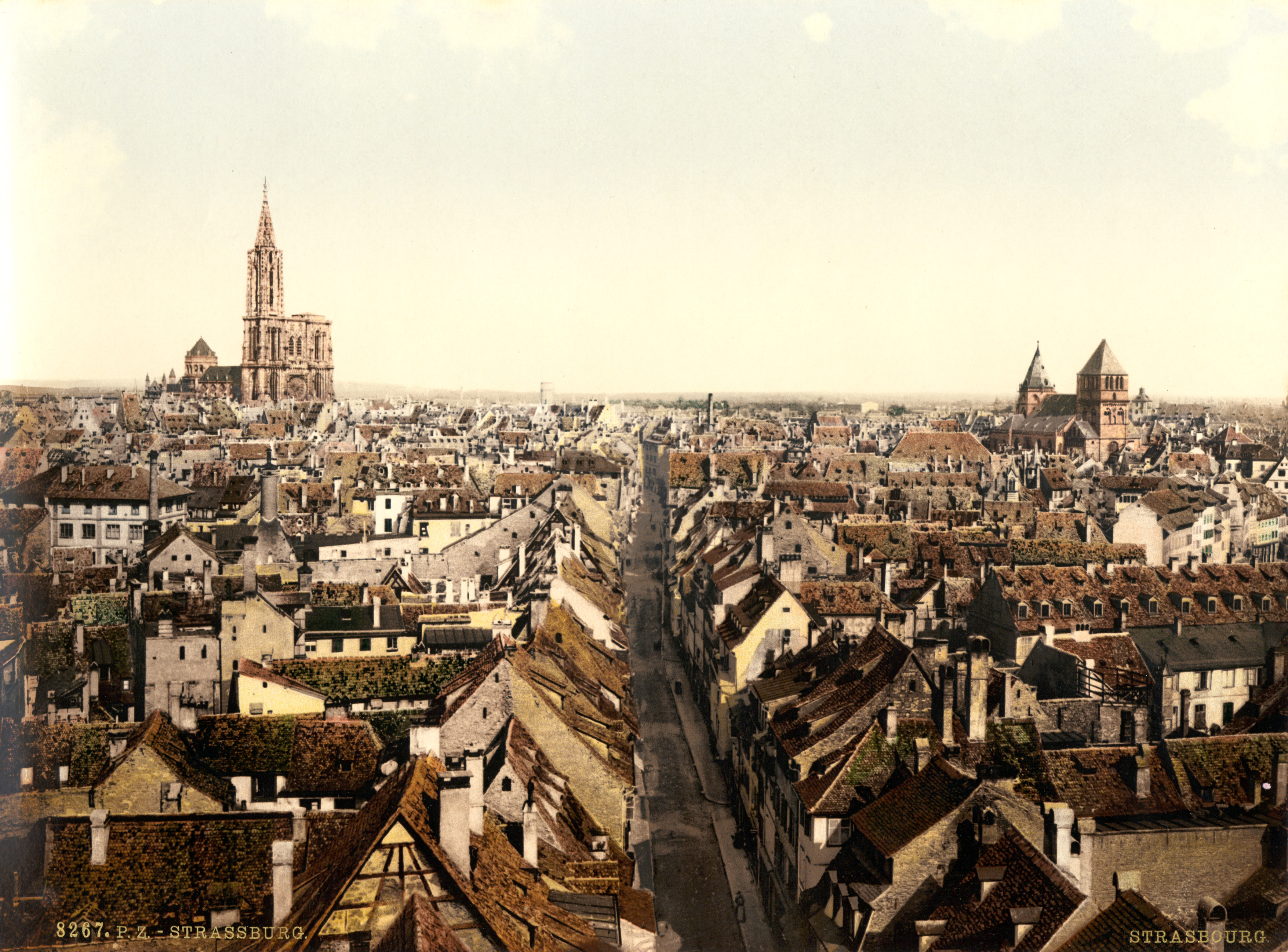 Photochrom print by Photoglob Zürich, between 1890 and 1900. From the Photochrom Prints Collection at the Library of Congress More photochroms from Alsace | More photochrom prints [PD] This picture is in the public domain